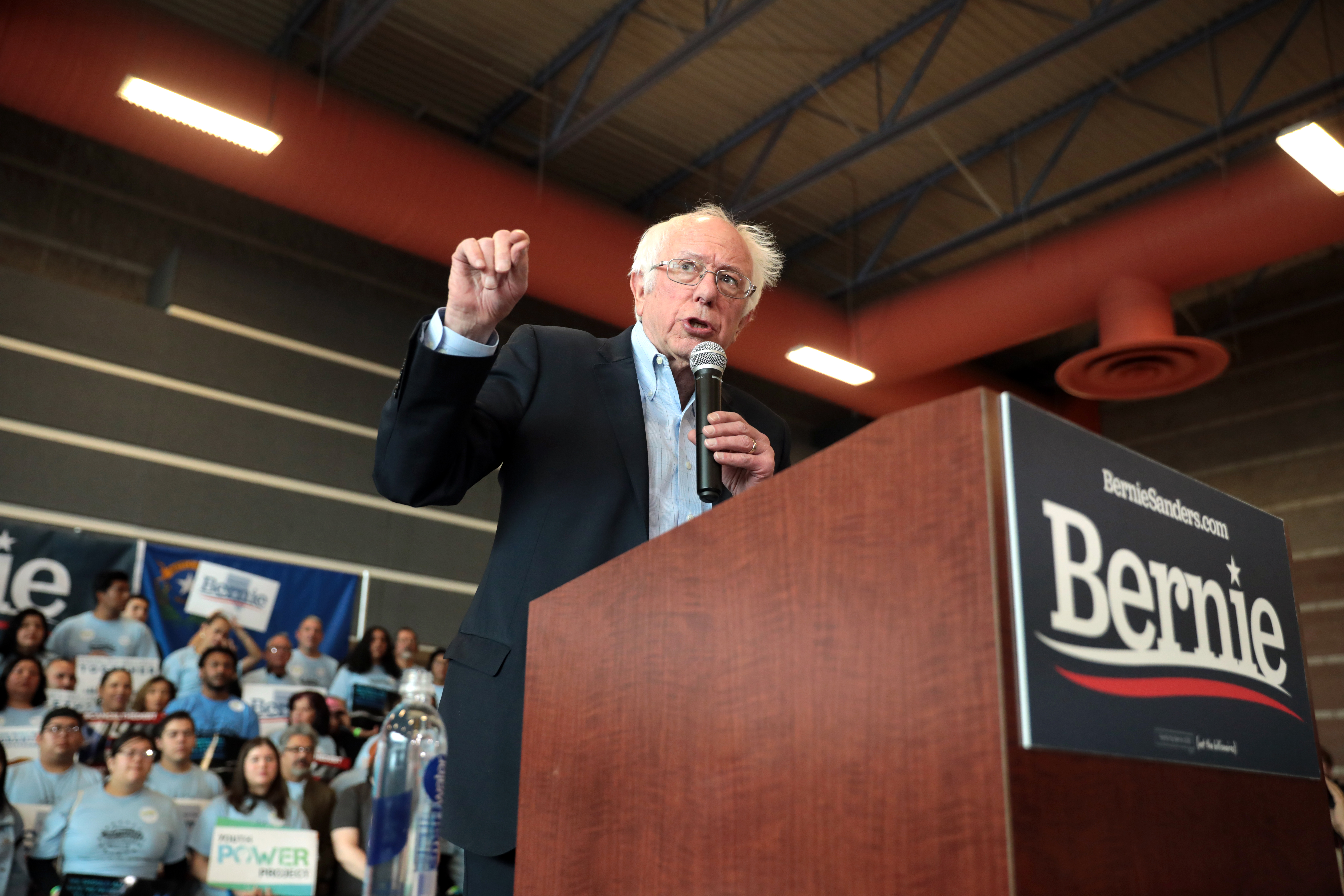 U.S. Senator Bernie Sanders speaking with supporters at a campaign rally at Desert Pines High School in Las Vegas, Nevada.